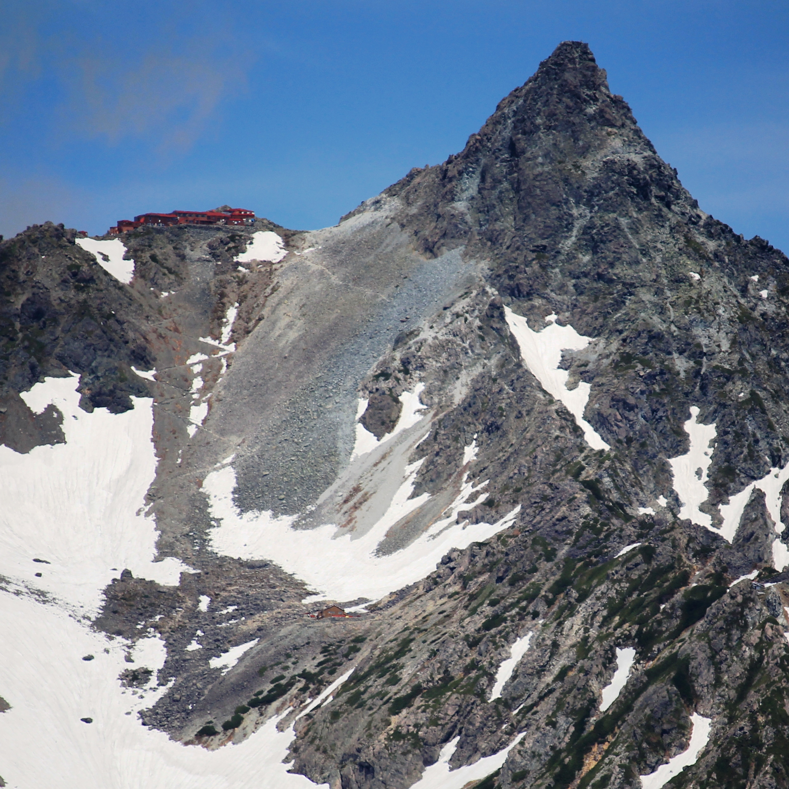 Mount Yari seen from Mount Chō in Hida Mountains, Japan.